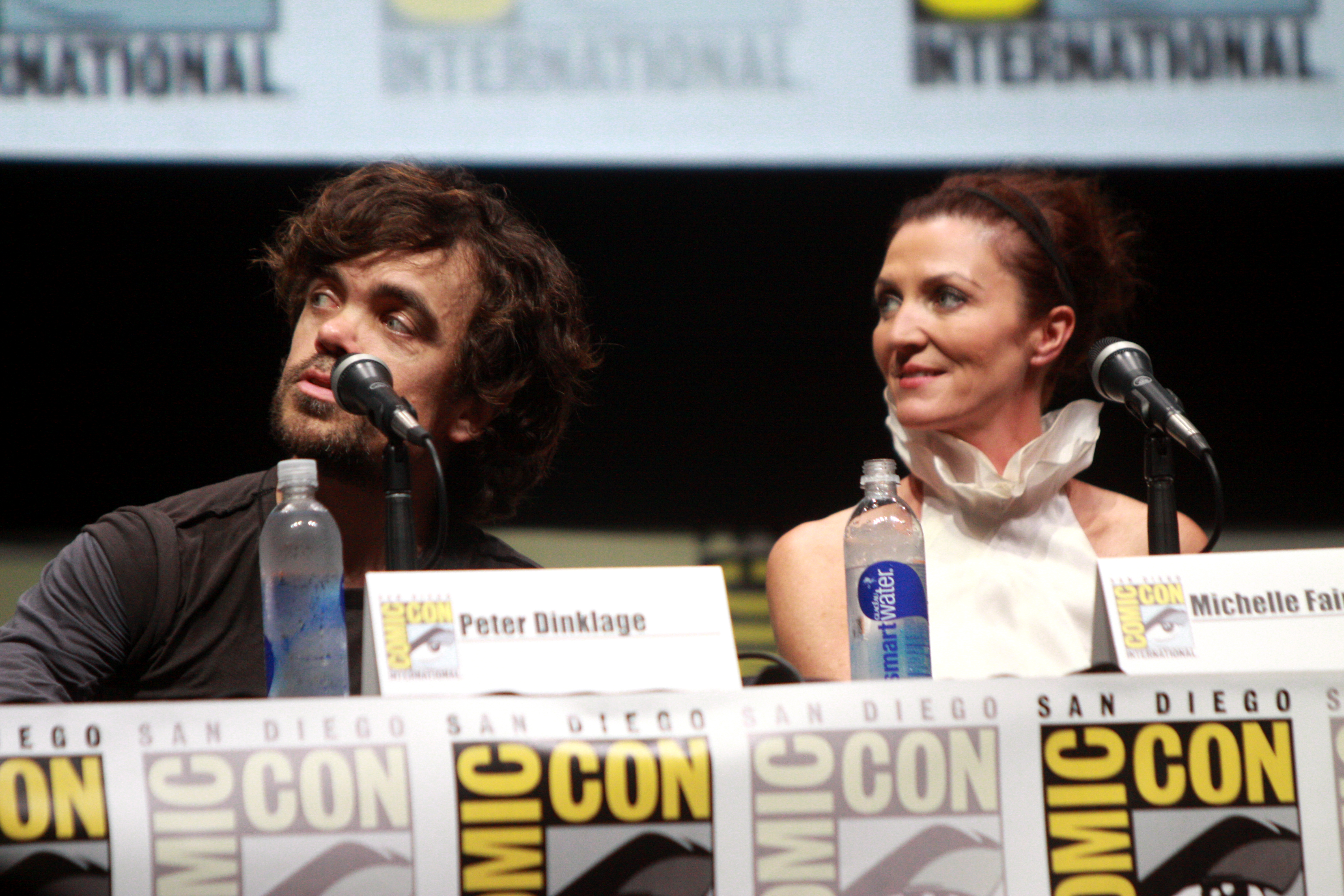 Peter Dinklage and Michelle Fairley speaking at the 2013 San Diego Comic Con International, for "Game of Thrones", at the San Diego Convention Center in San Diego, California.